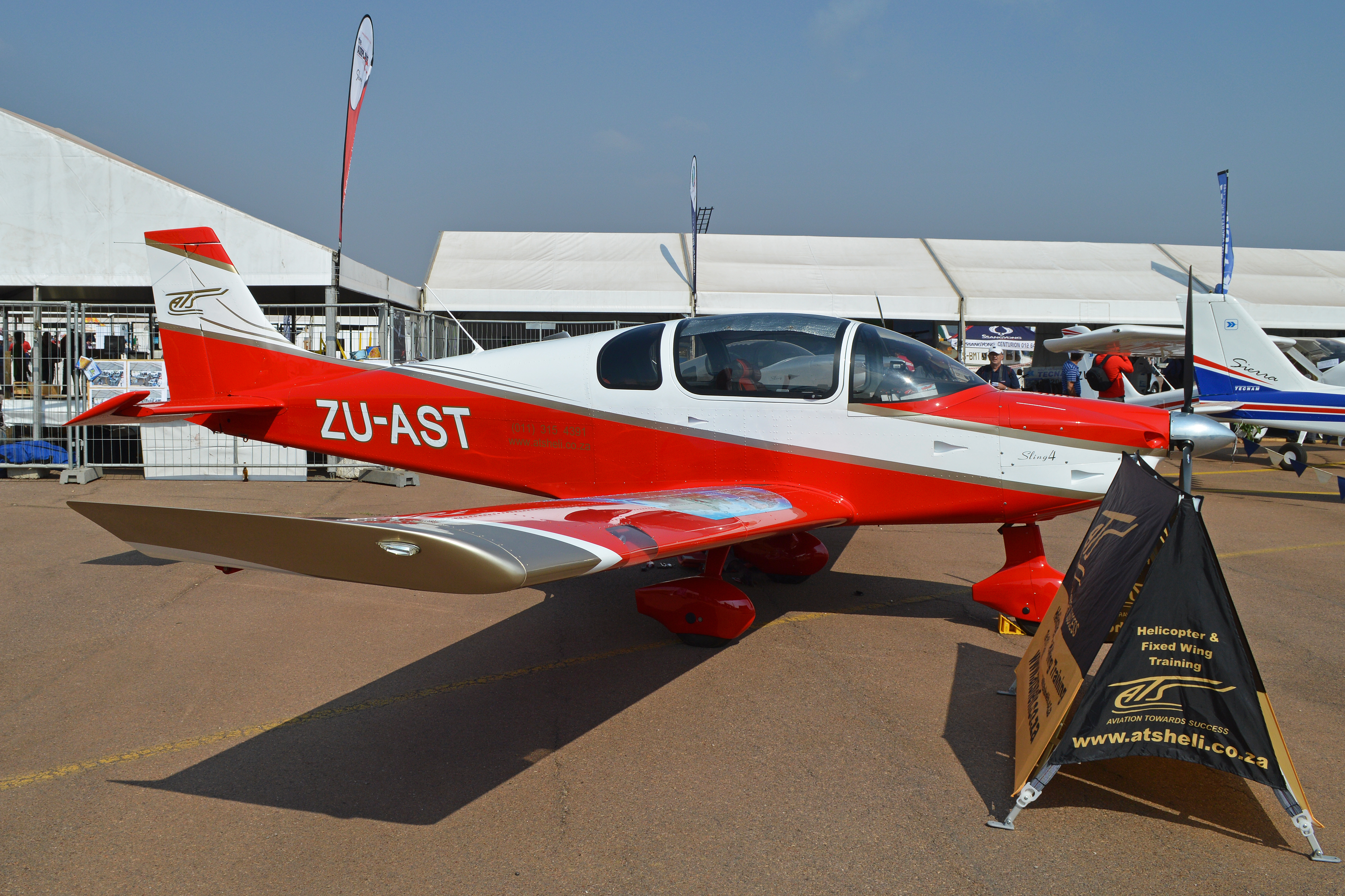 c/n 017. Seen on static display at Waterkloof AFB during the 2014 AAD (African Aerospace & Defence) airshow. 20-9-2014